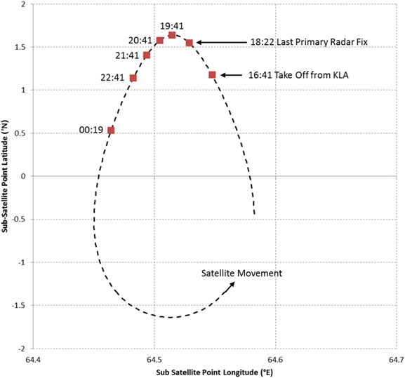 A map of the sub-satellite points of Inmarsat-3 F1 during the period it was in contact with Malaysia Airlines Flight 370 as well as an indication of the satellite's motion.